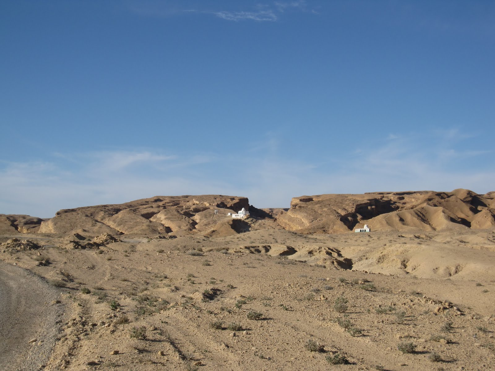 Sidi Bouhlel, Tunisia Desert canyon area notable for its use as a filming location for Star Wars as the canyon on the Planet Tatooine where Luke Skywalker is attacked by Tusken Raiders, and for the Procession of the Ark in Raiders of the Lost Ark